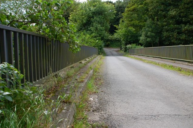 Ballievey Bridge near Banbridge. The original bridge across the Bann at Ballievey was a suspension bridge built in 1831/32. It collapsed in 1988 when a lorry exceeded the weight restriction. This is its successor. The view is away from the crossroads.